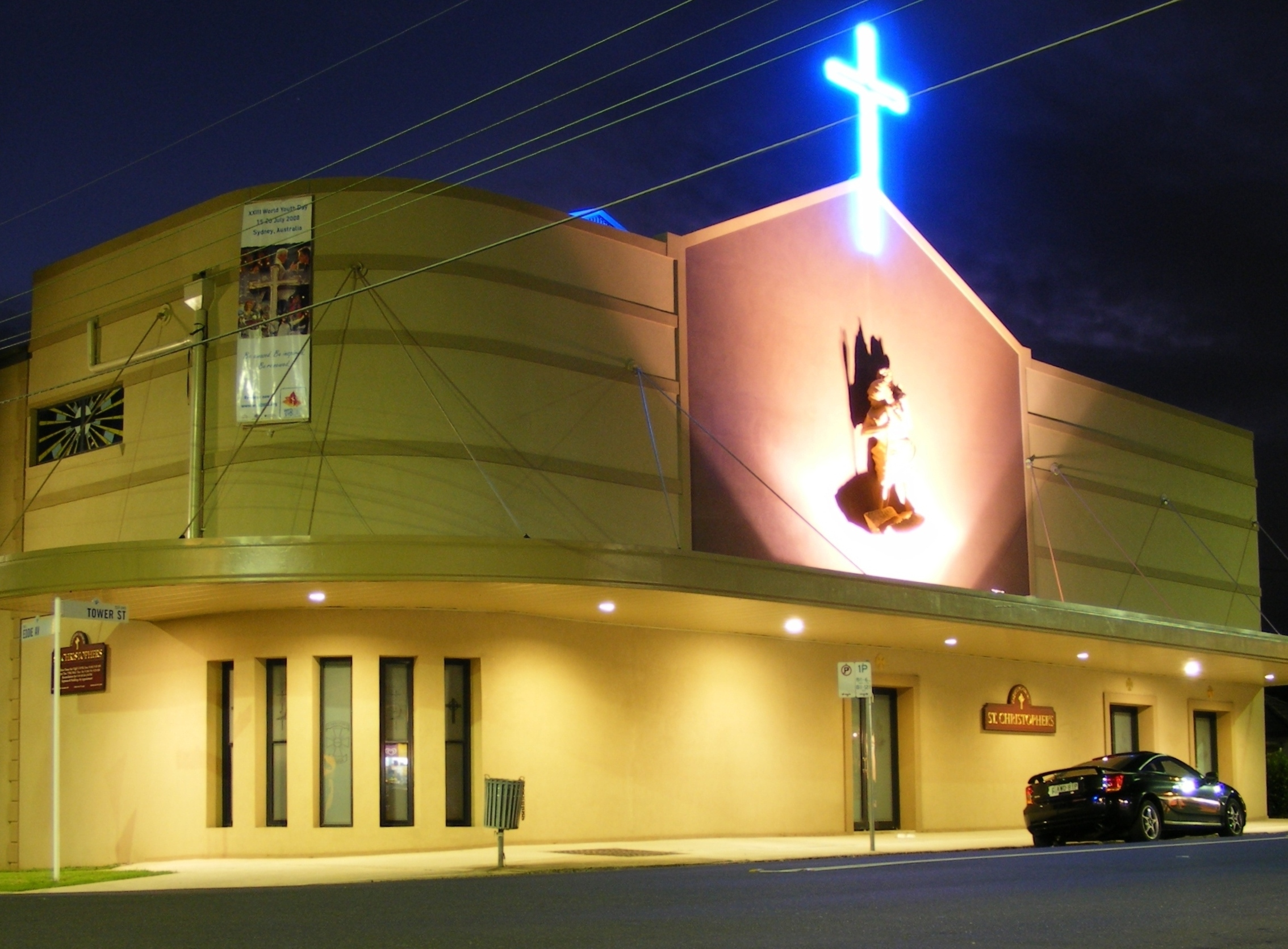 Pania, City of Bankstown